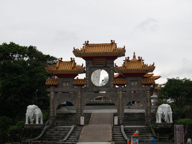 CKS Park or Chung Cheng Park, Xinyi District, Keelung City, Republic of China. Taken by ResTpeTw on April 5th 2007.